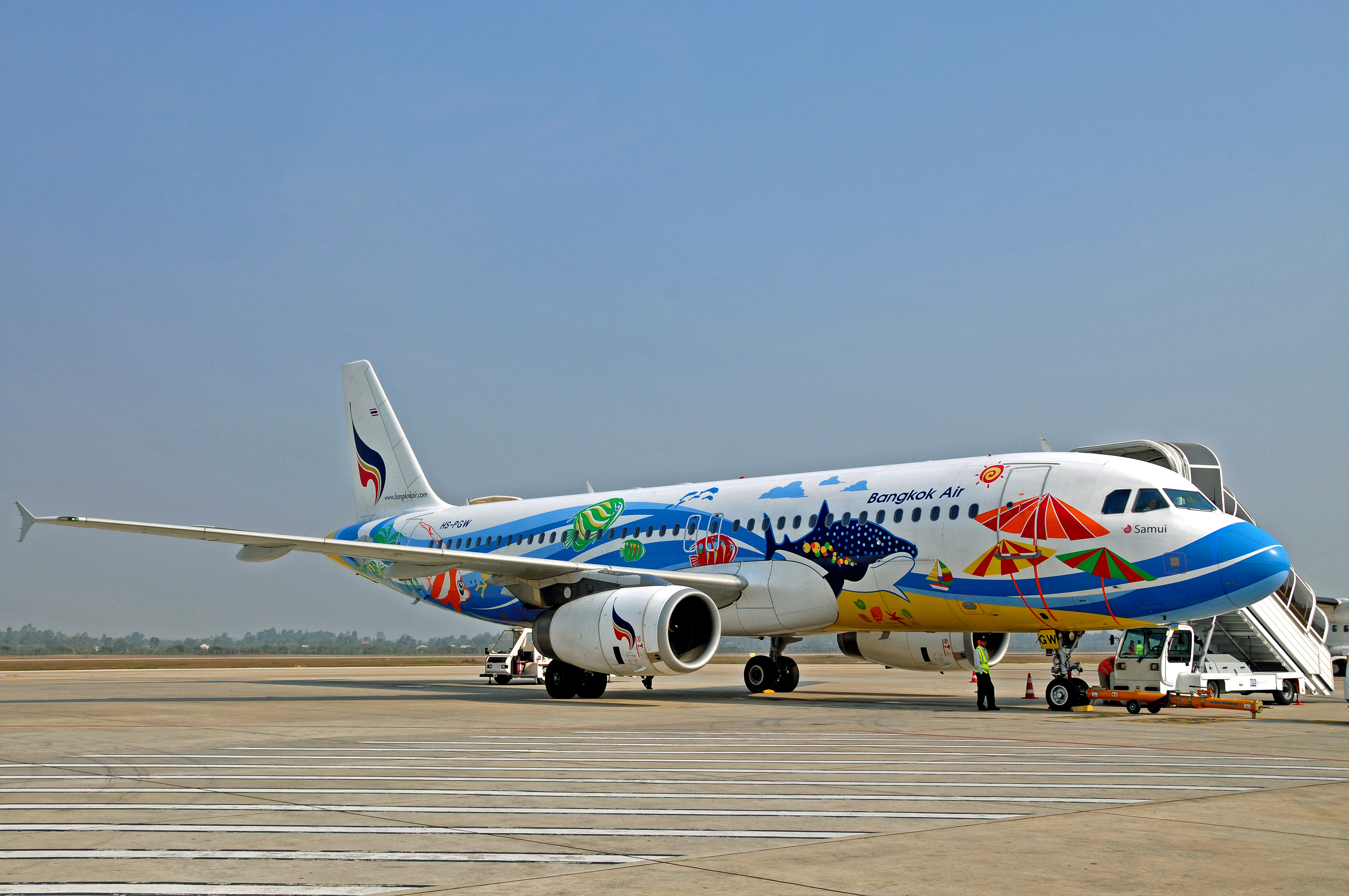 PLEASE, no multi invitations (none is better) in your comments. Thanks. Bangkok Airways Flight PG924 - Siem Reip to Bangkok. I uploaded this because I like the paint job on the plane. Airbus – A320 Well this is it we are on our way to Thailand, I really hope you all enjoyed the Siem Reap area of Cambodia. It is a poor country but has very friendly people and many photographic opportunities . In Thailand we go to a totally different place, a beautiful country and we will see some great things.